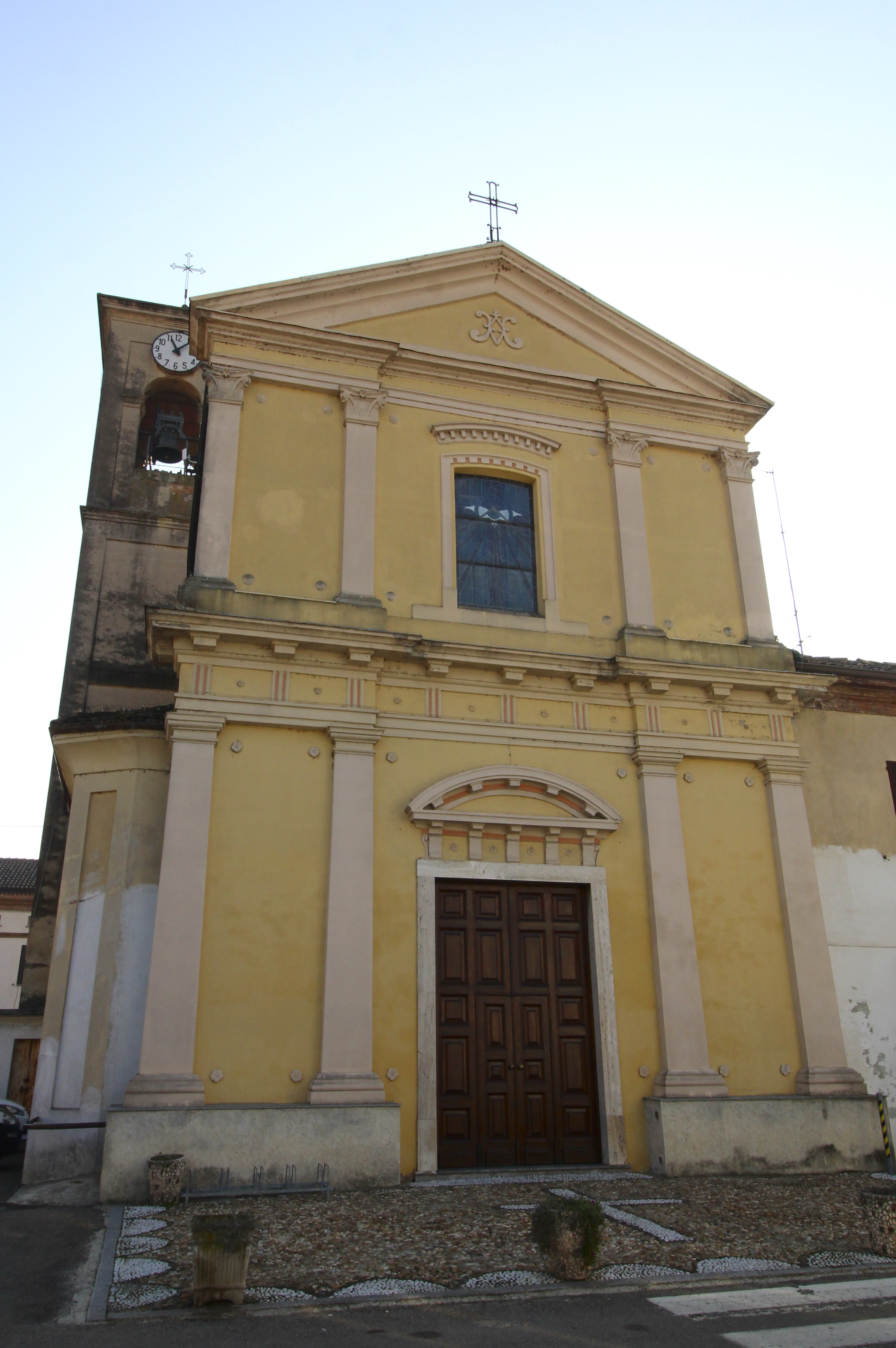 Church Natività di Maria Vergine, Cornale, Cornale e Bastida, Province of Pavia, Lombardy, Italy